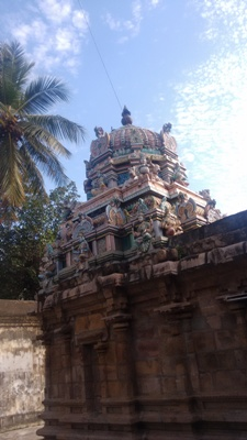 Tirumangalakudi prananatheswarar temple திருமங்கலக்குடி பிராணநாதேஸ்வரர் கோயில்